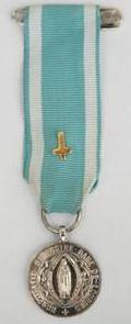 Medaglia Hospitalitè Notre Dame de Lourdes